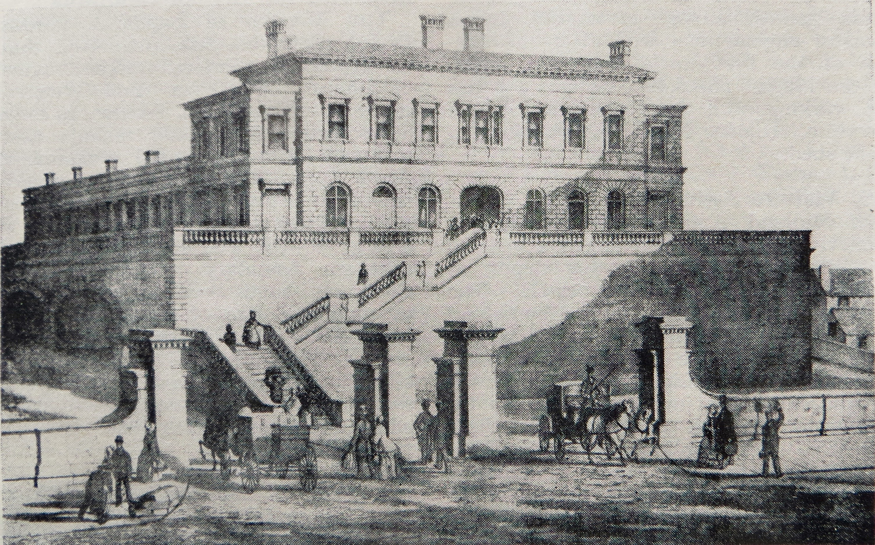 Tithebarn St opened to passengers on May 13, 1850, jointly owned by the Lancashire and Yorkshire and the East Lancashire railway companies. It was demolished between 1884 and 1888, when the larger Exchange station was built on its site.